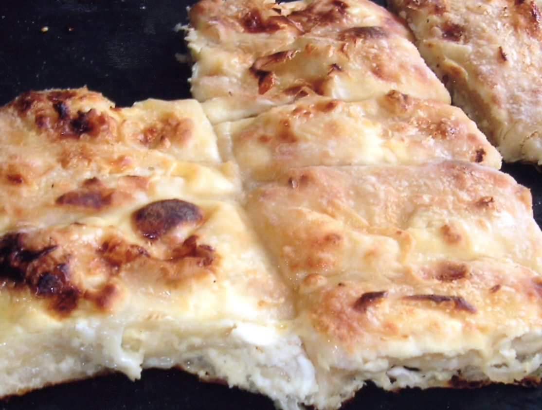 Štrukli